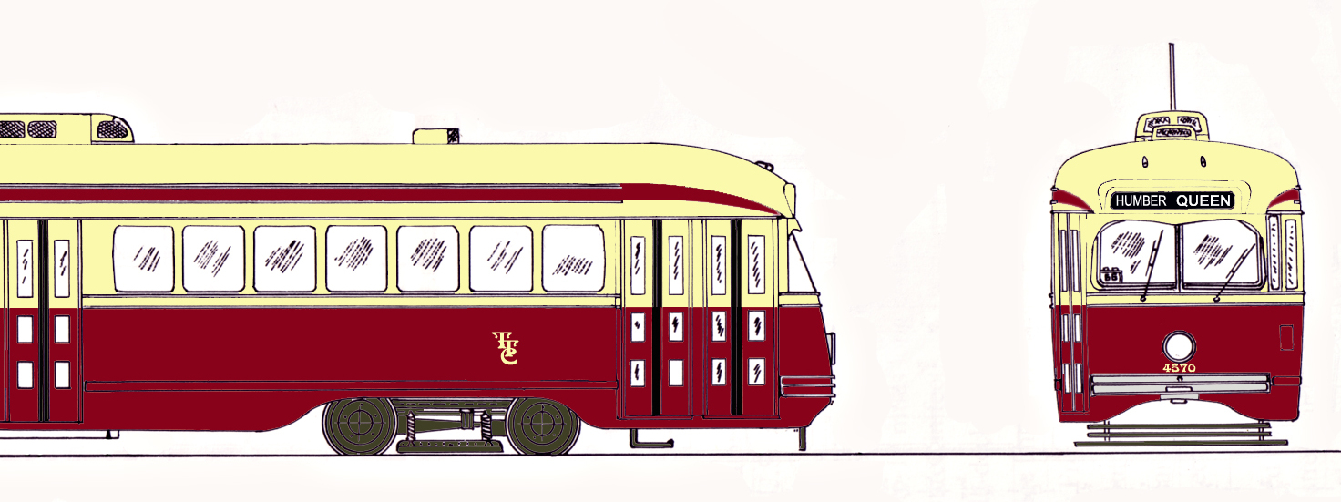 «Toronto Transportation Co. (TTC) : Standard paint scheme» (original caption)